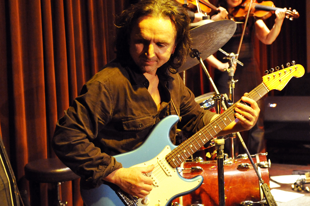 Anthimos Apostolis performing at Jazz Club Rynek in Warszawa, Poland with Greek Freaks ensemble.